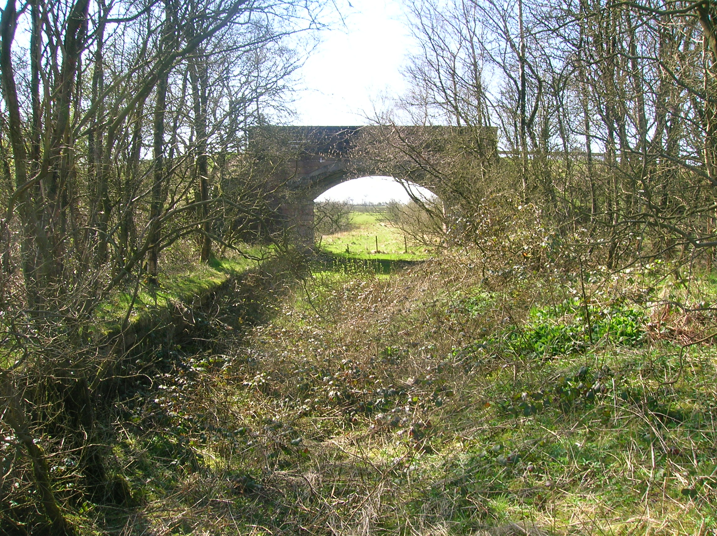 Uplawmoor railway station was a railway station serving the village of Uplawmoor, East Renfrewshire, Scotland as part of the Lanarkshire and Ayrshire Railway. Looking towards Lugton High